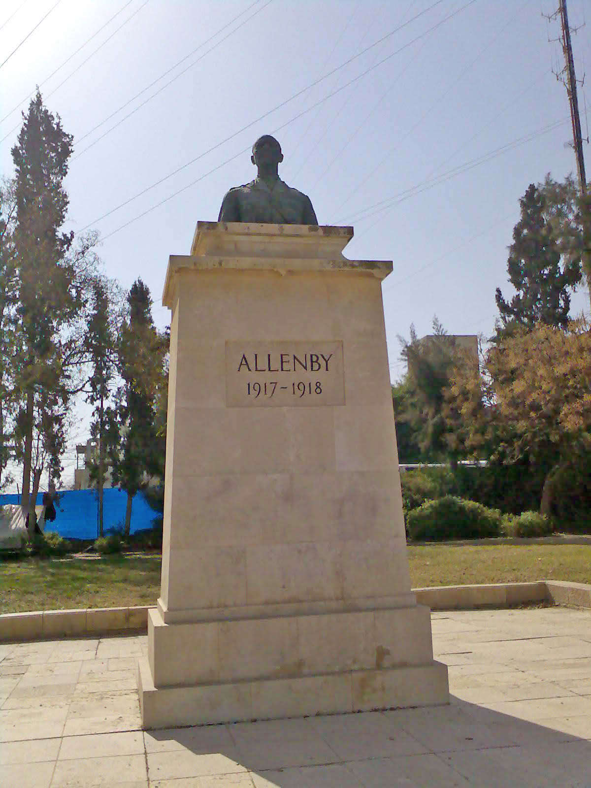 Monument to Edmund Allenby in Beer-Sheva.